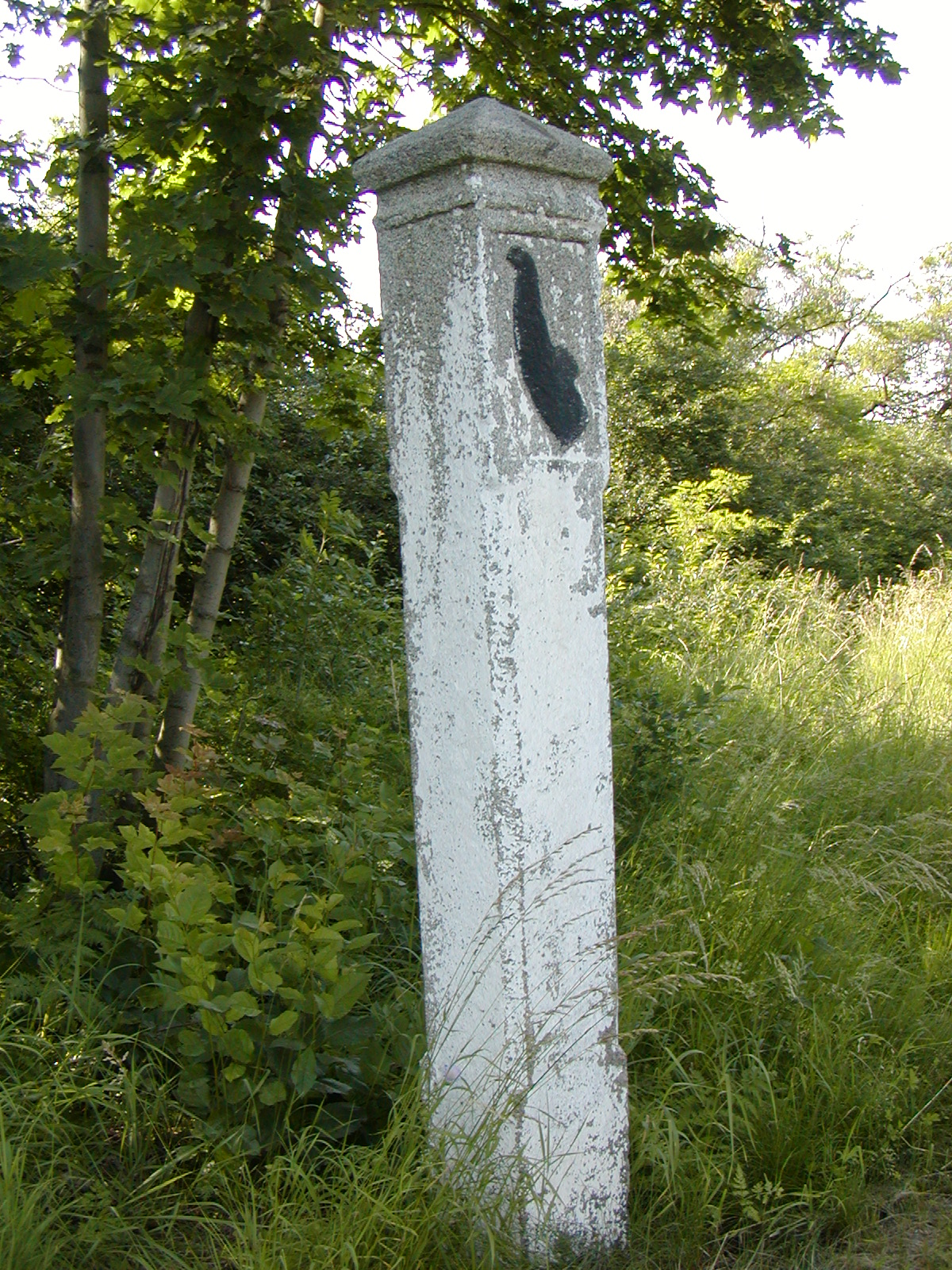 Historic road sign - braking stone - besides old road connecting Vodňany and Protivín, Radčice, part of Vodňany town, Strakonice District, Czech Republic